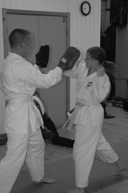 Exercises with kicking shield (?)